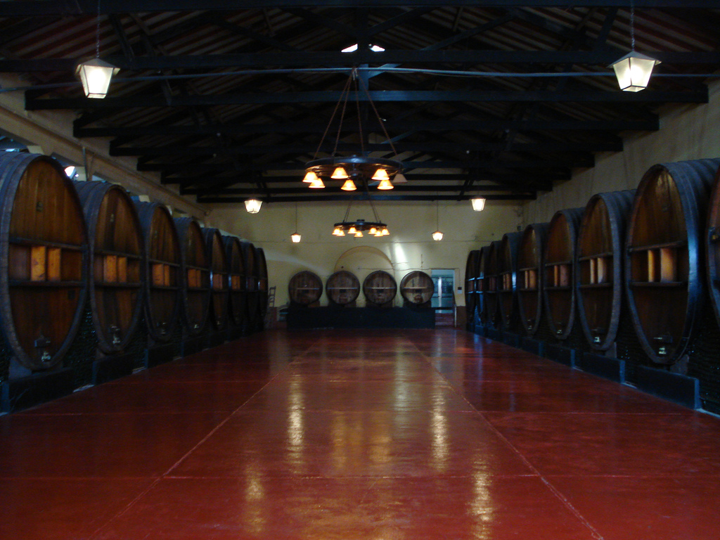 Baudron Bodegas y Viñedos (Baudron Wineries and Vineyards) have devoted themselves to vine-growing and wine-making with passion and family work for more than 60 years. It was founded in 1940 by a family of French and Italian immigrants who chose mendocinian lands to apply their experience of European vine-growers. Later, the heirs of don Luis Baudron continued the wine-making tradition their father had started in the last century threshold, until, in 1986, Rubén Leta purchases the company and becomes its new owner.